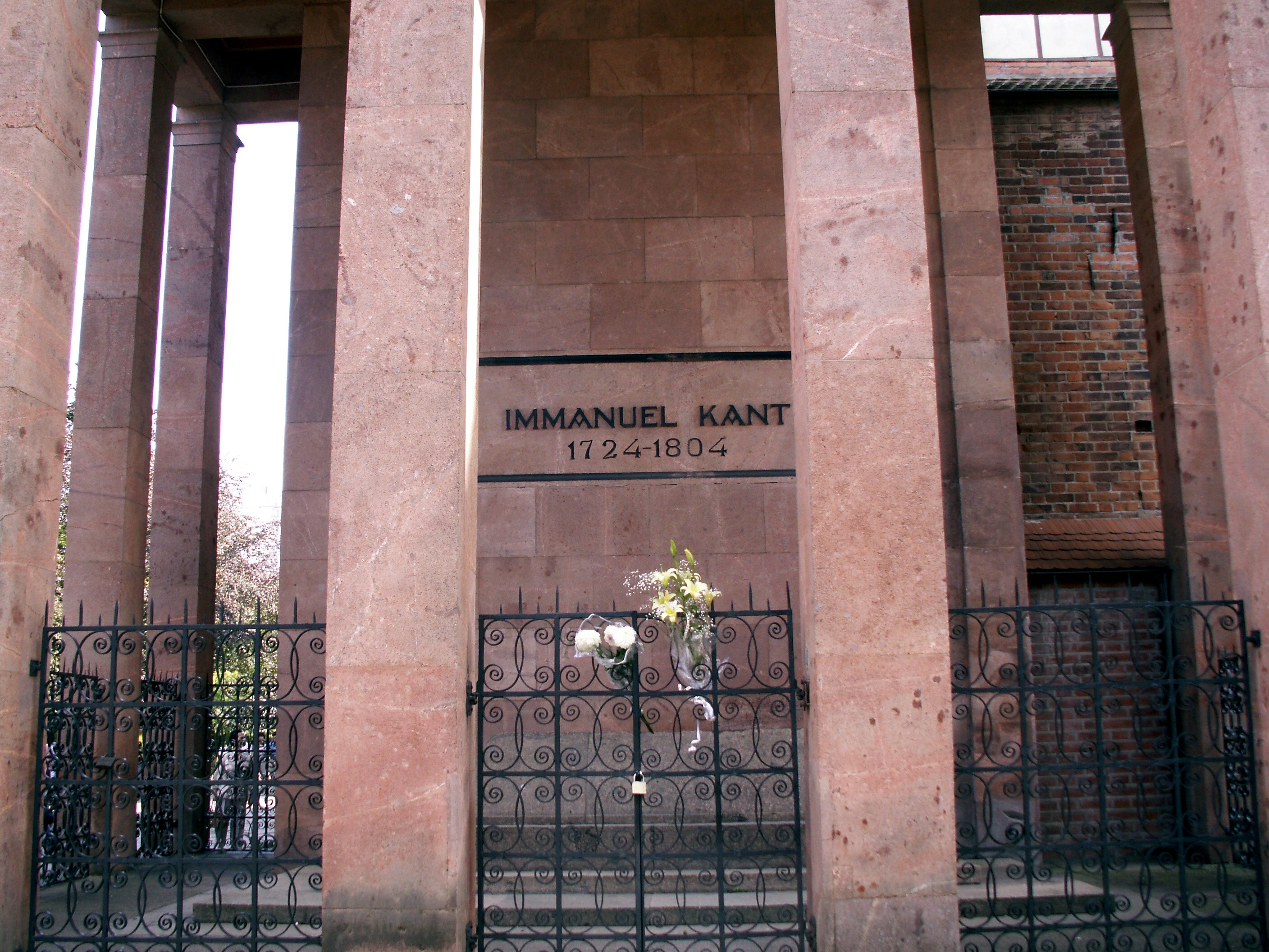 Tomb of Immanuel Kant in Königsberg cathedral in Kaliningrad